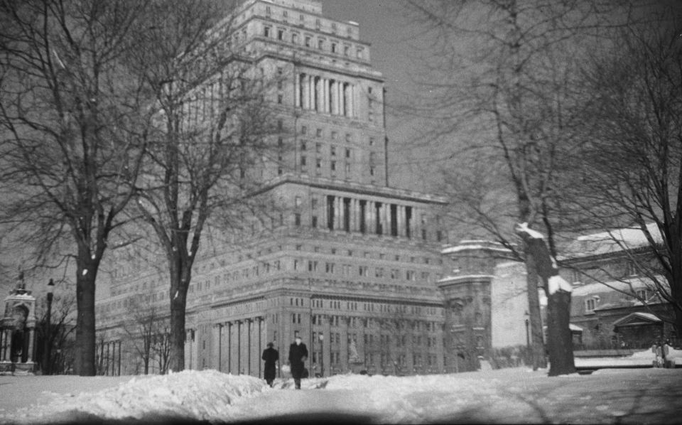 The Sun Life building opposite the Dominion Square (now Dorchester Square) in Montreal.